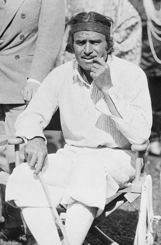 American actor Douglas Fairbanks (1883-1939) in The Thief of Bagdad (1924).